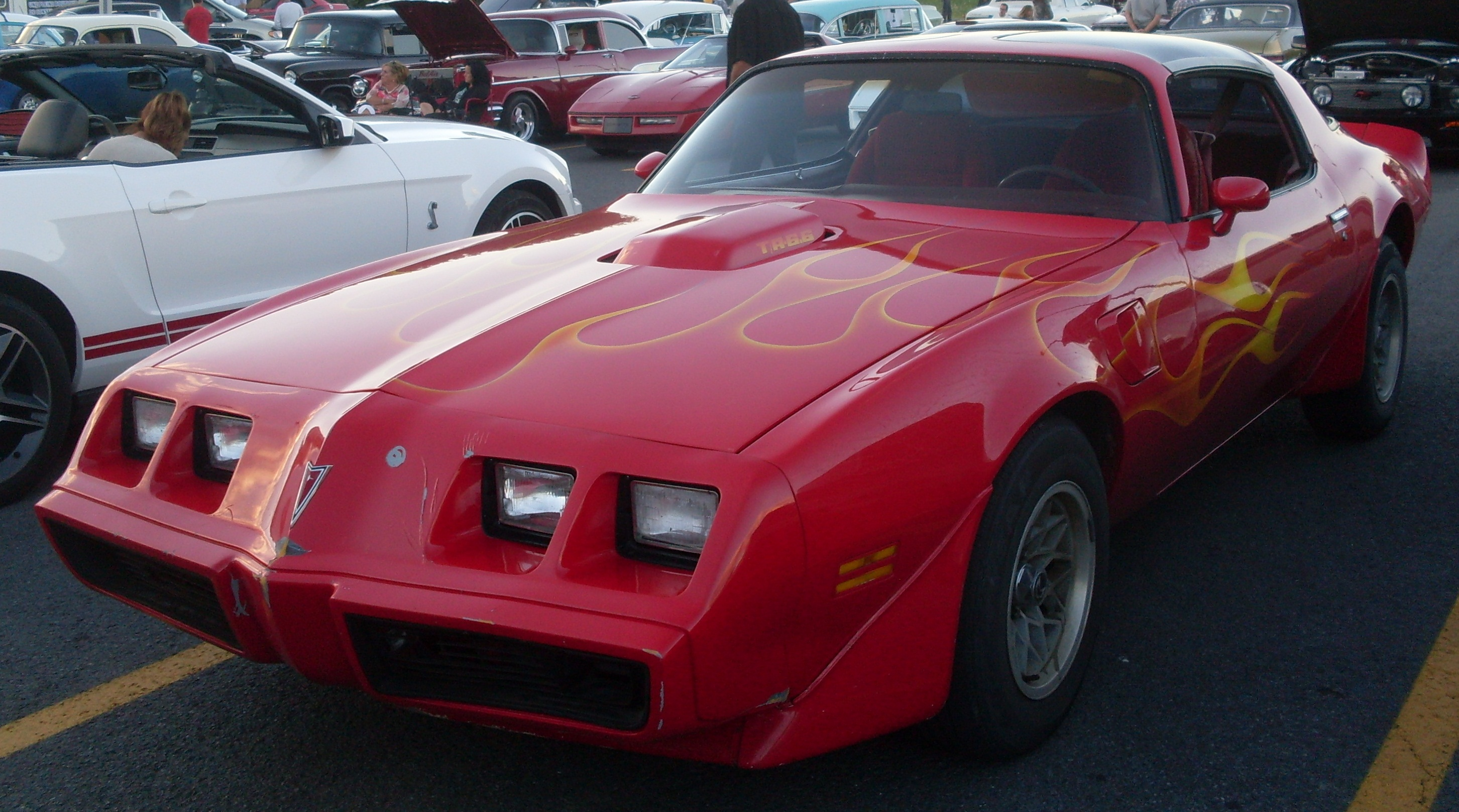 Pontiac Firebird photographed in St. Constant, Quebec, Canada at Auto classique St-Constant 2013.